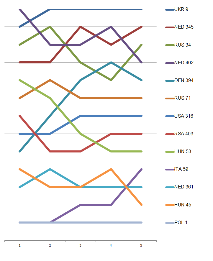 Dragon positions during the 2012 Vintage Yachting Games